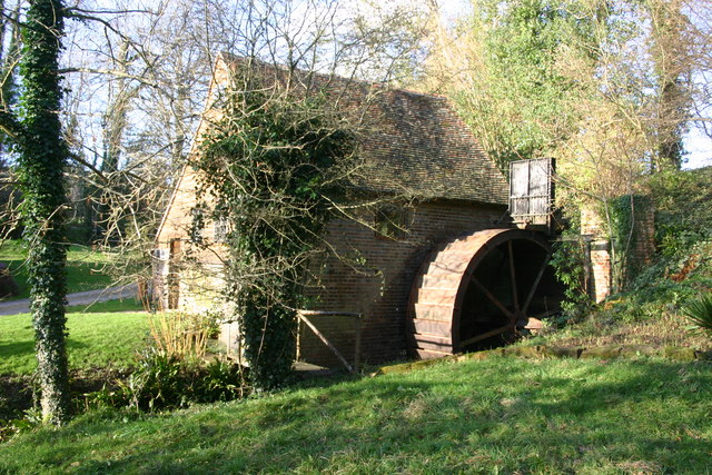 Sheffield watermill, East Sussex: an overshot mill, recently re-roofed